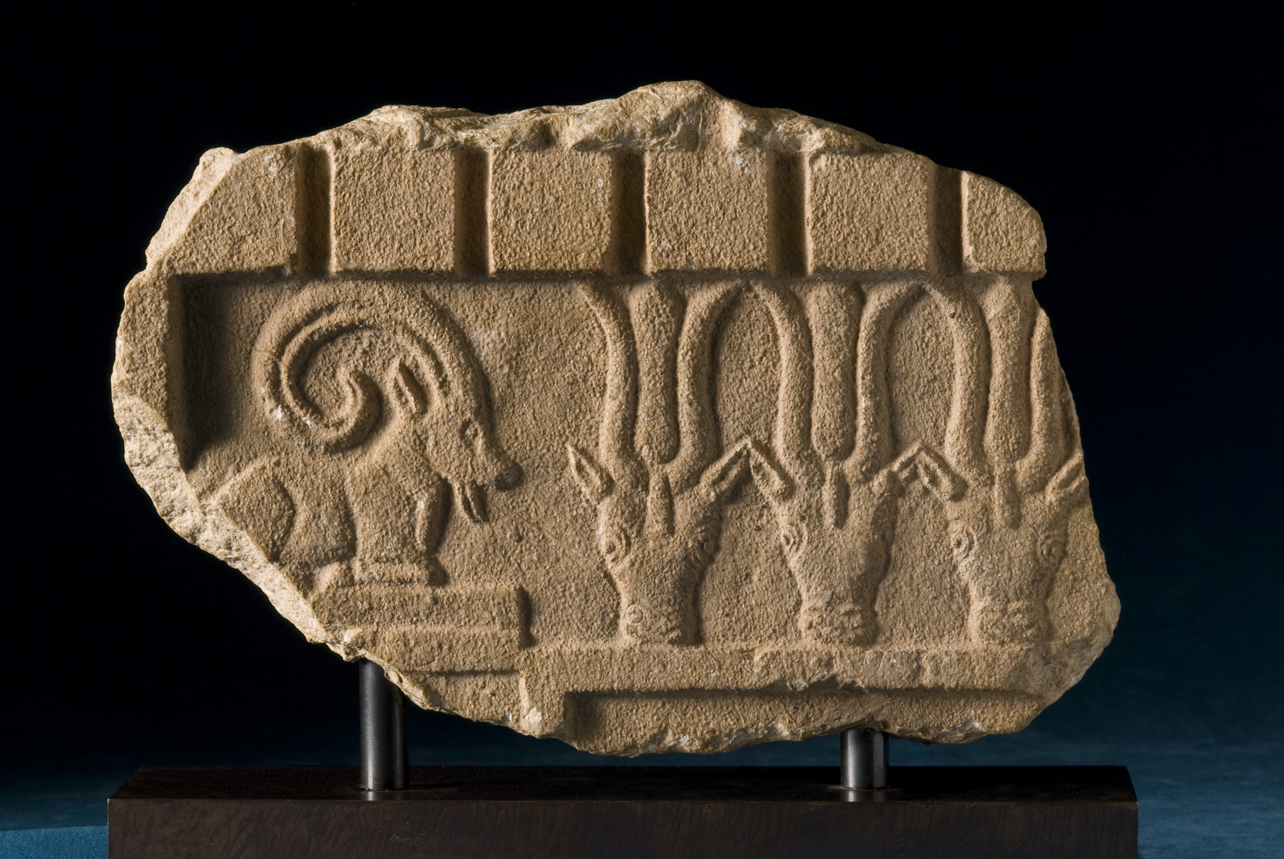 This fragment, part of a stela, depicts a reclining ibex and three Arabian oryx antelope heads. The ibex was one of the most important sacred animals in ancient South Arabia, while the oryx was associated with the moon-god, 'Almaqah, and the god of Venus, "Athtar.